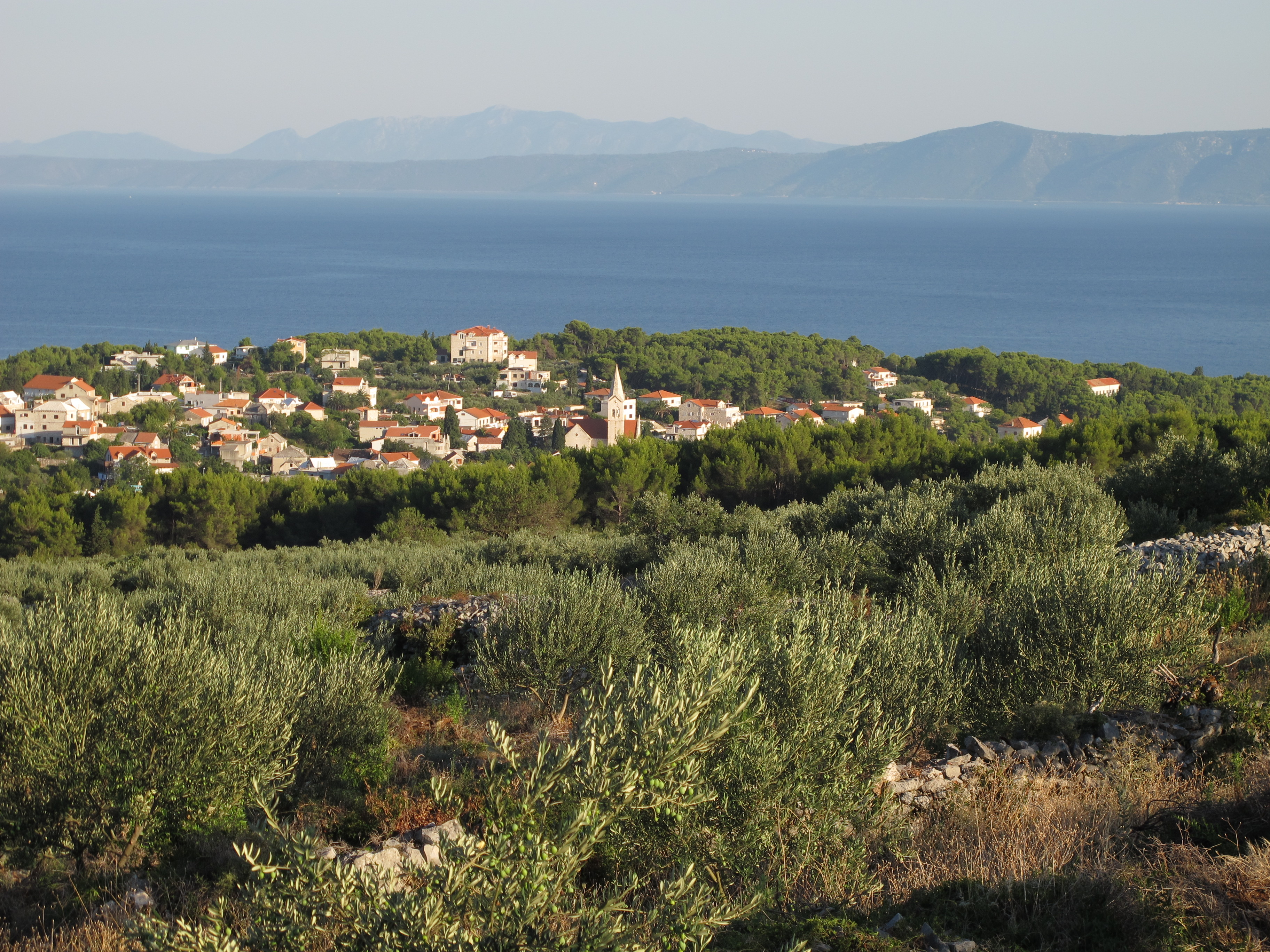 Looking down at Sumartin